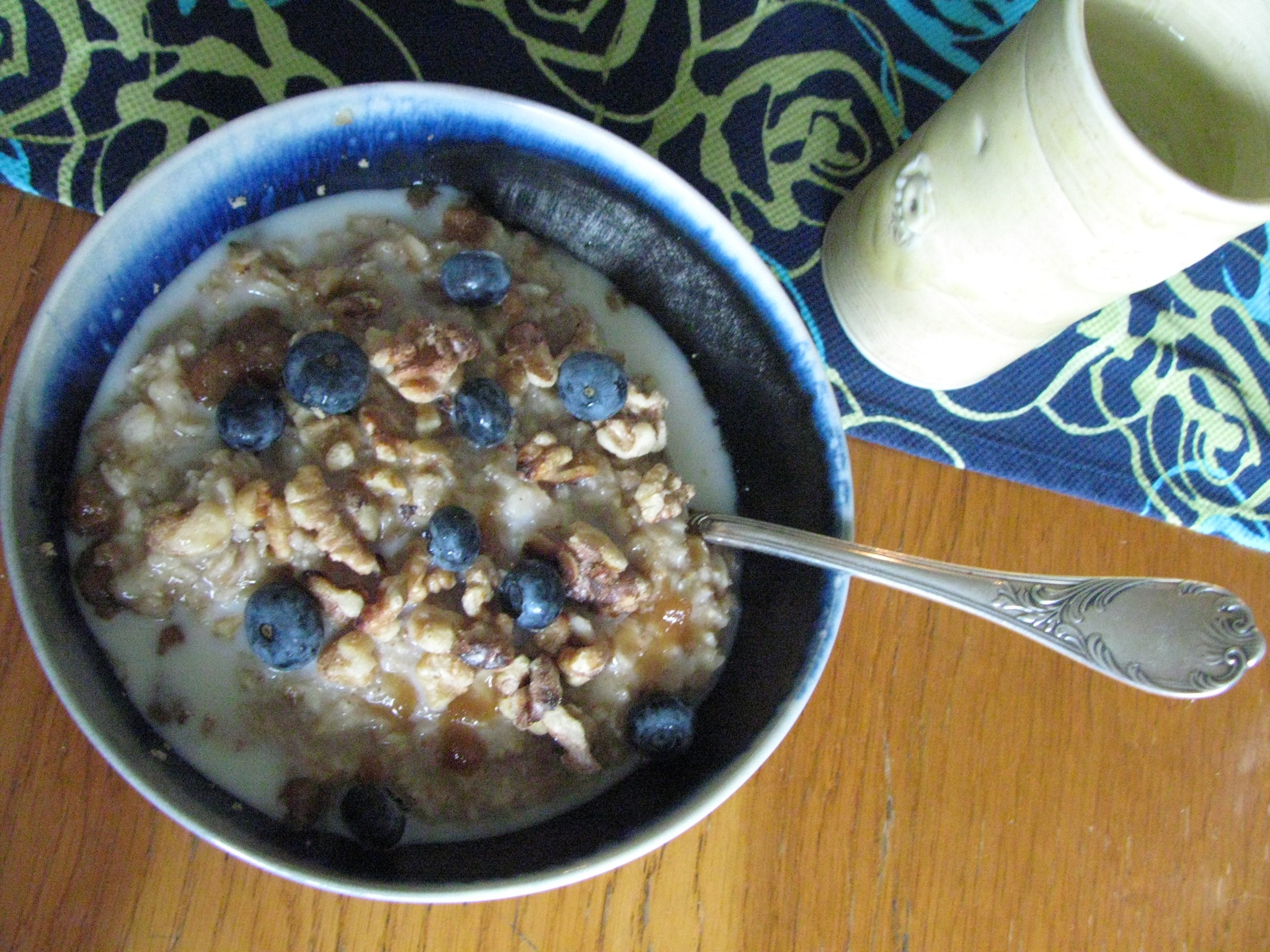 Oatmeal, blueberries, toasted almonds, brown sugar, maple syrup, cinnamon and almond milk.